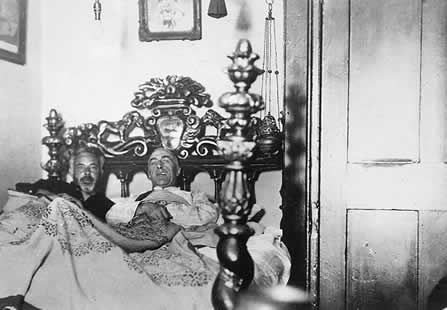 Harry Price with C.E.M. Joad in an allegedly haunted bed in a house in Chiswick, London.